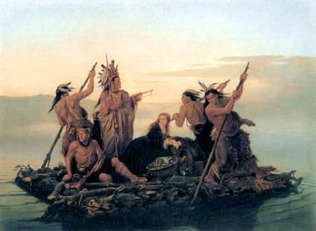 Five Indians and a Captive